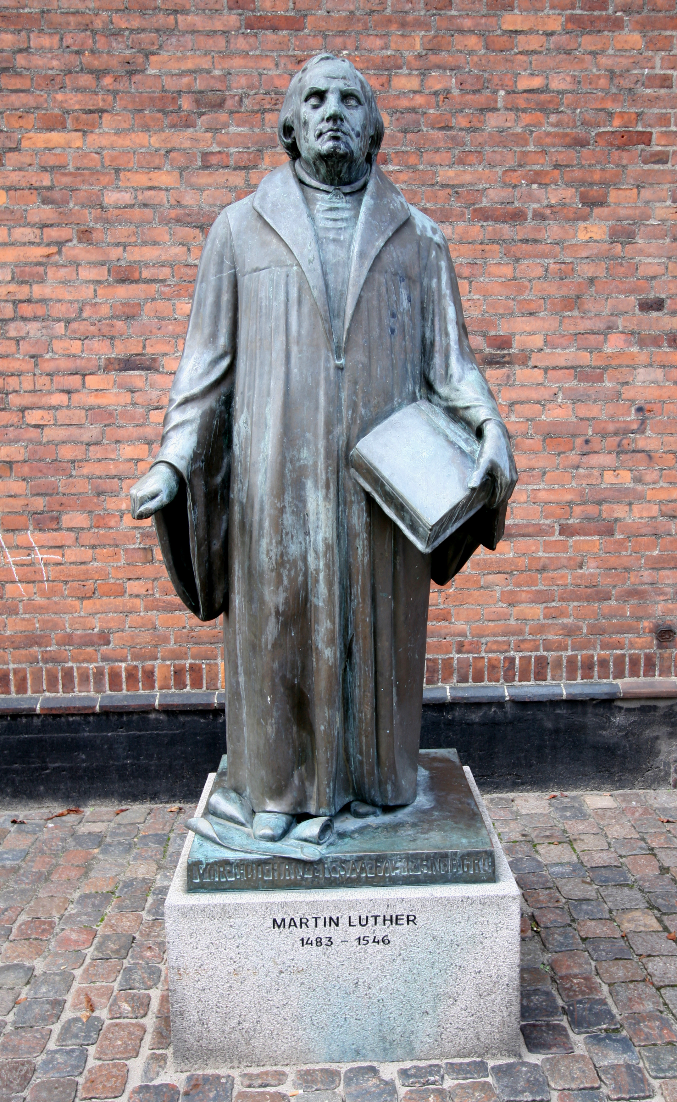 Luther Kirken in Copenhagen, Denmark. Statue of Martin Luther by Rikard Magnussen 1983